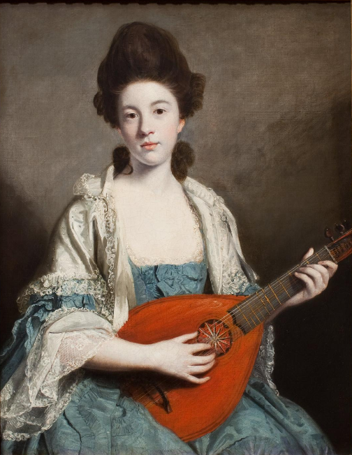 Phillis Hurrell (1746-1826), 1762 portrait by Sir Joshua Reynolds. In 1766, four years after having her portrait painted, Phillis married Robert Froude (1741-1770), patron of Molland-cum-Knowstone Church in Devon. The marriage was brief. Froude died in 1770 while Phillis was pregnant with their fourth child. The son born posthumously was Robert Hurrell Froude (1771–1859), Archdeacon of Totnes, in Devon. Minneapolis Institute of Art, G307. 35 5/8 x 28 1/2 in. (90.49 x 72.39 cm) (sight) 46 x 39 in. (116.84 x 99.06 cm) (outer frame). See also File:Sir Joshua Reynolds - Portrait of Mrs. Froude.jpg